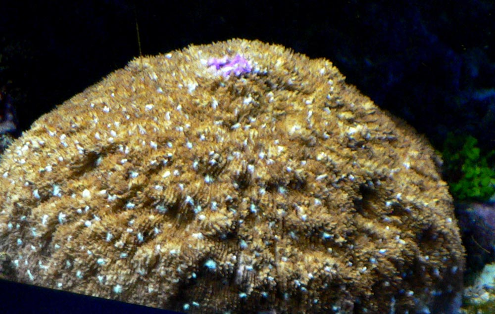 Photo of Halomitra pileus at the Birch Aquarium in San Diego. ID reviewed by Dr. Bert W. Hoeksema.